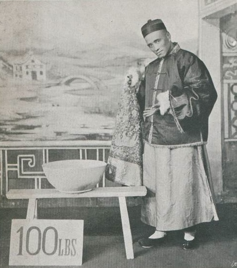 Postcard with Ching Ling Foo (1854-1922), a famous Chinese magician. The picture is from his show in the USA in 1898. Picture is copied from [1], from an article about the magician in Czech newspaper MF Dnes. The newspaper obtained this photo (and other photos and materials) from Náprstek Museum in Prague. These artifacts were collected during magician's show in Prague in 1905.